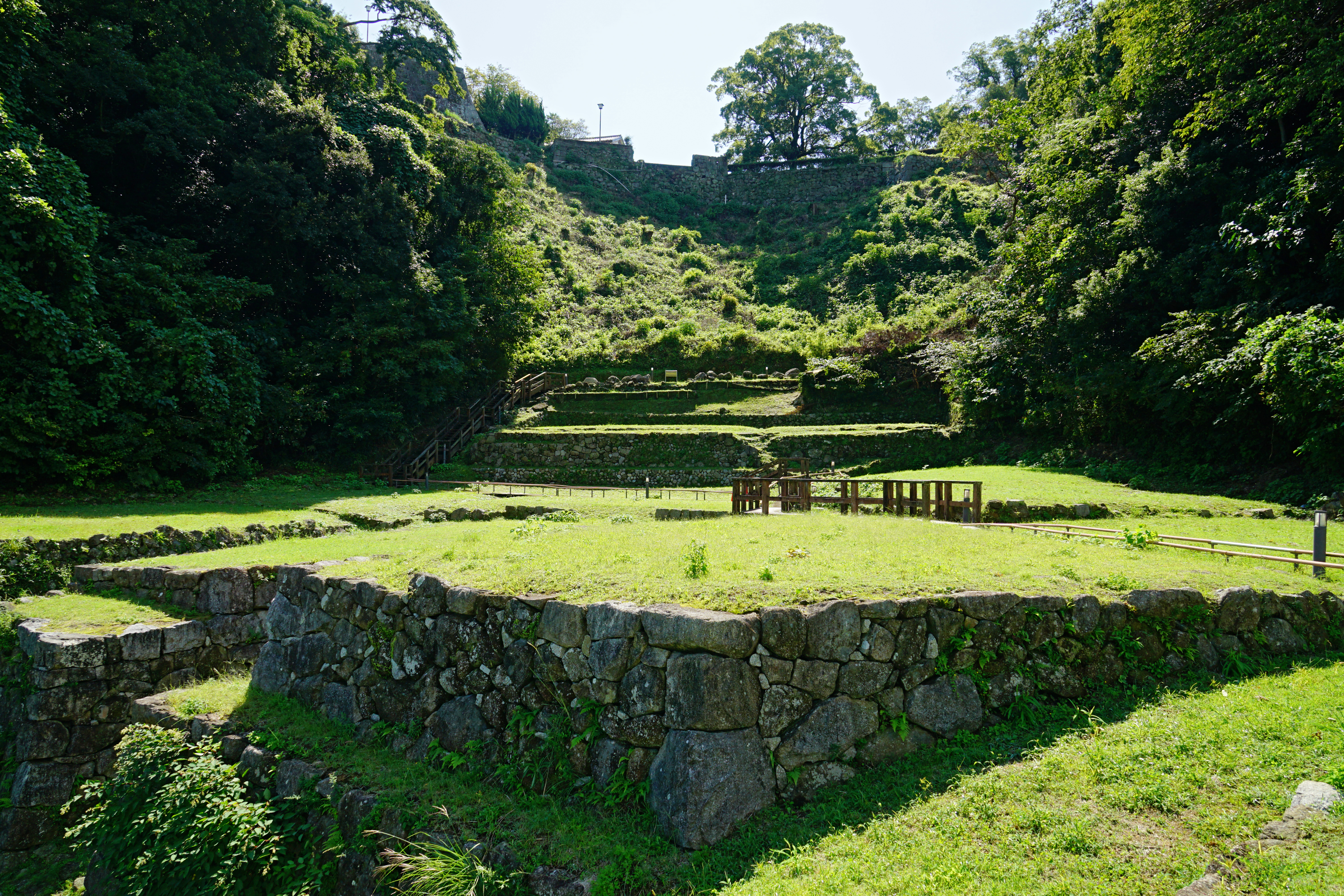 Shingū Castle in Shingū, Wakayama prefecture, Japan